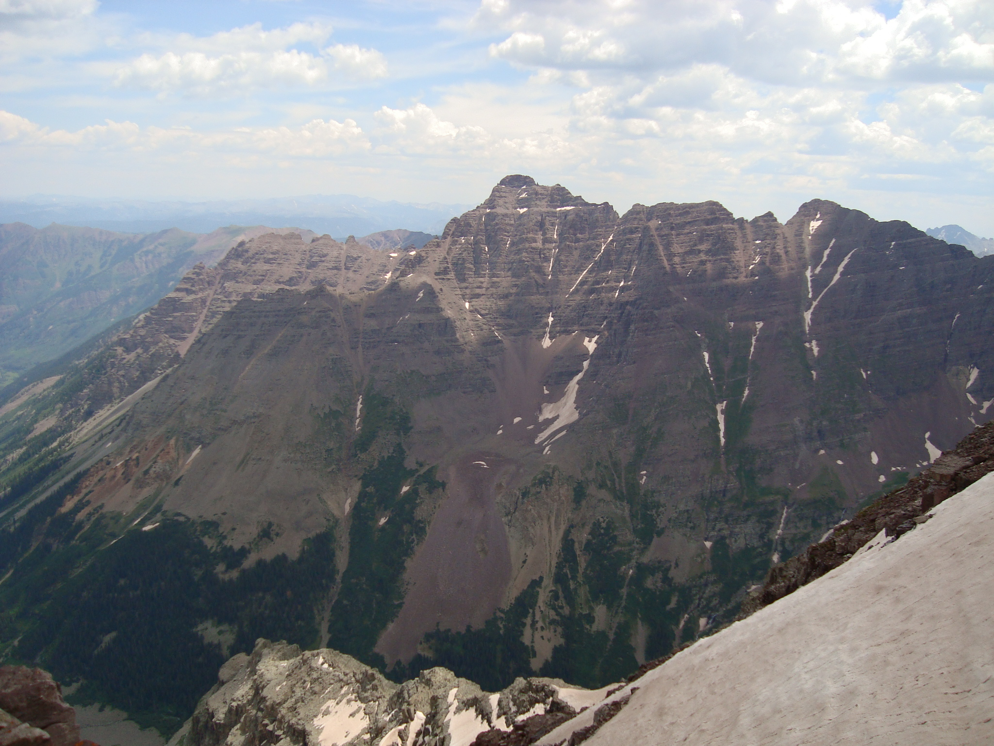 Pyramid Peak (14,018 ft) as seen from Maroon Peak (14,156 ft)